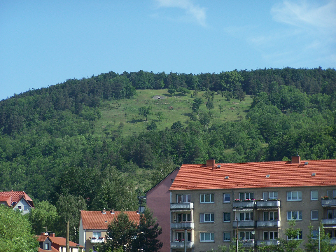 The "Wisch" with the ruin of the Cossenhaschen burial vault.